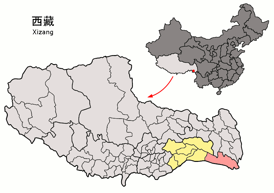 Location of Nyingchi County (pink) and Nyingchi prefecture (yellow) within Tibet (Xizang) autonomous region of China